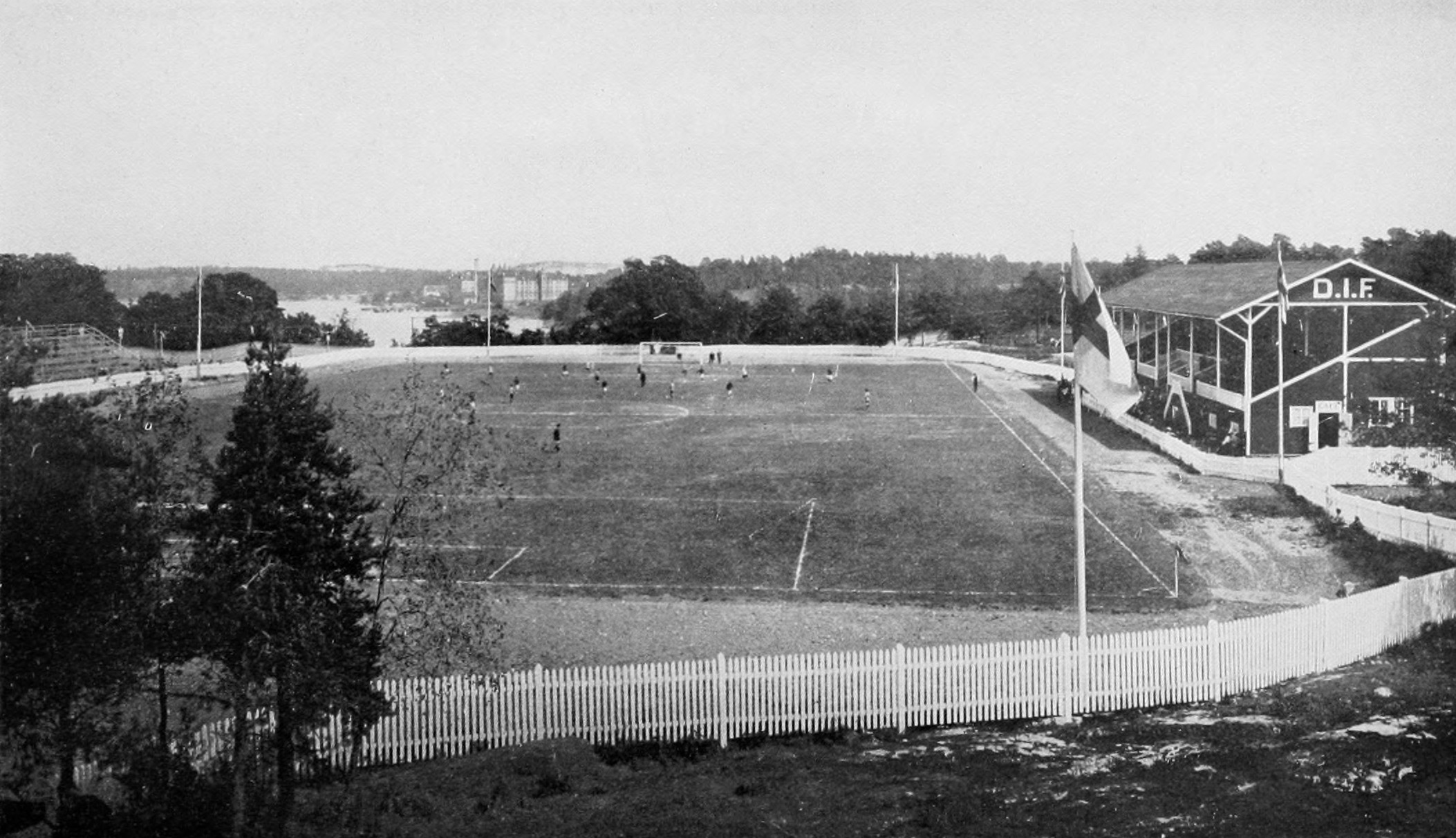 General view of the Traneberg athletic grounds, Stockholm